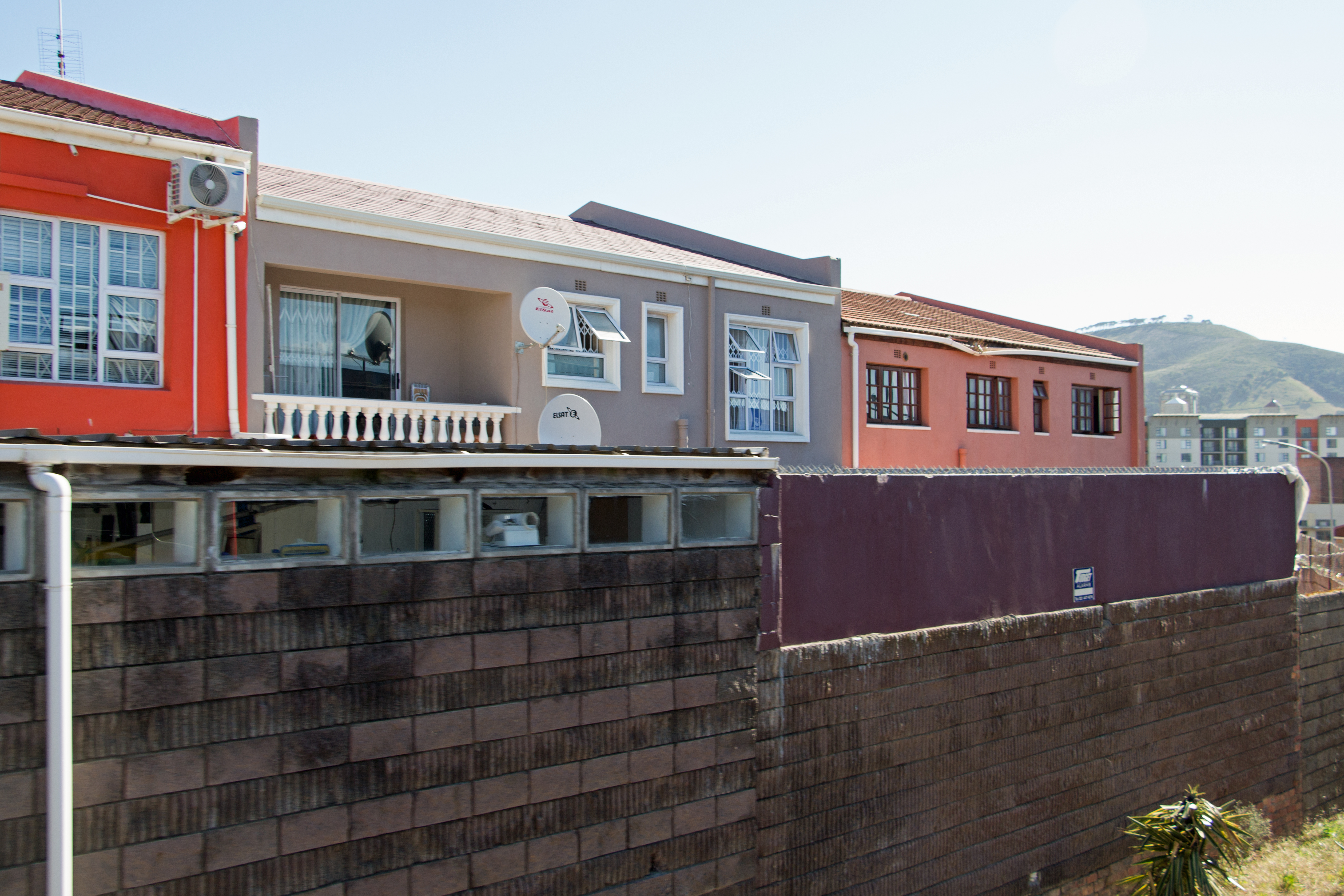 Colourful houses in District Six, Cape Town, South Africa. Signal Hill is visible in the background.